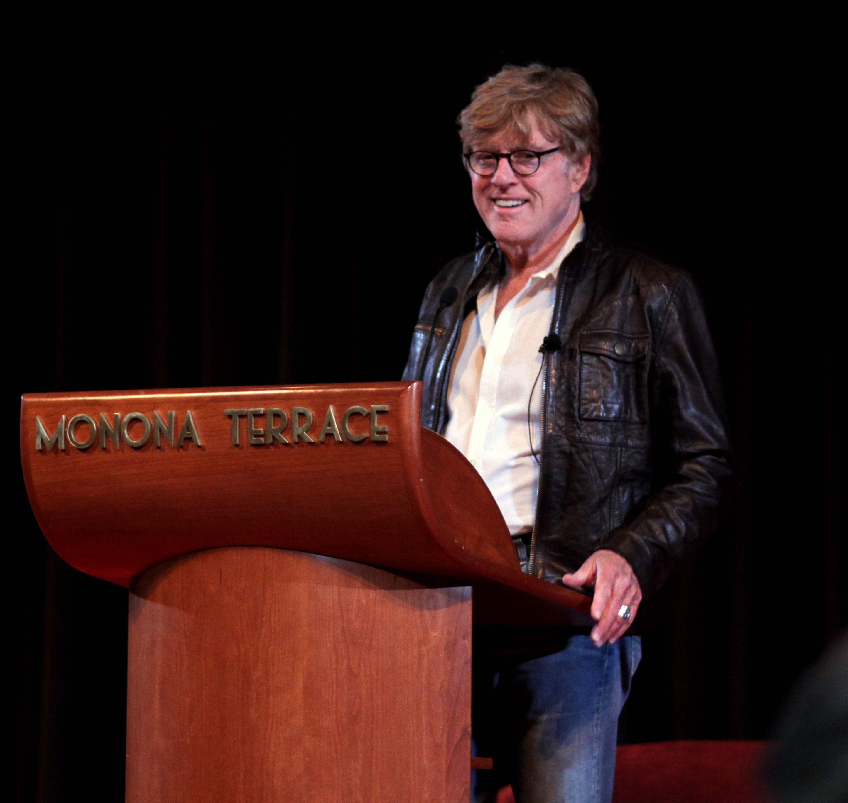 Robert Redford in 2009.